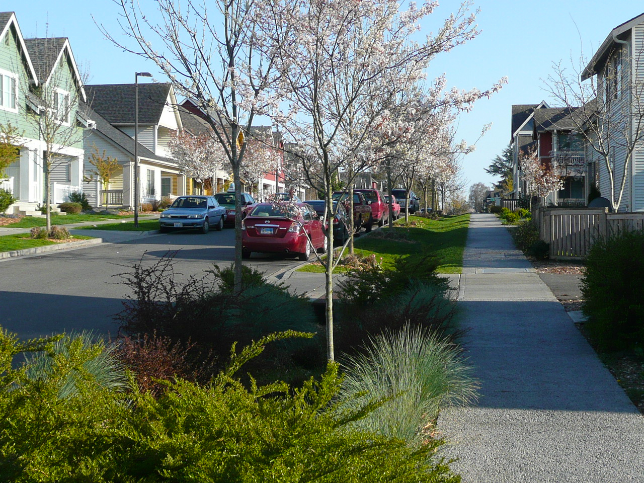 High Point neighborhood in West Seattle, WA, USA. Street scene. Note bioswayles (raingardens) for treating stormwater runoff from street.